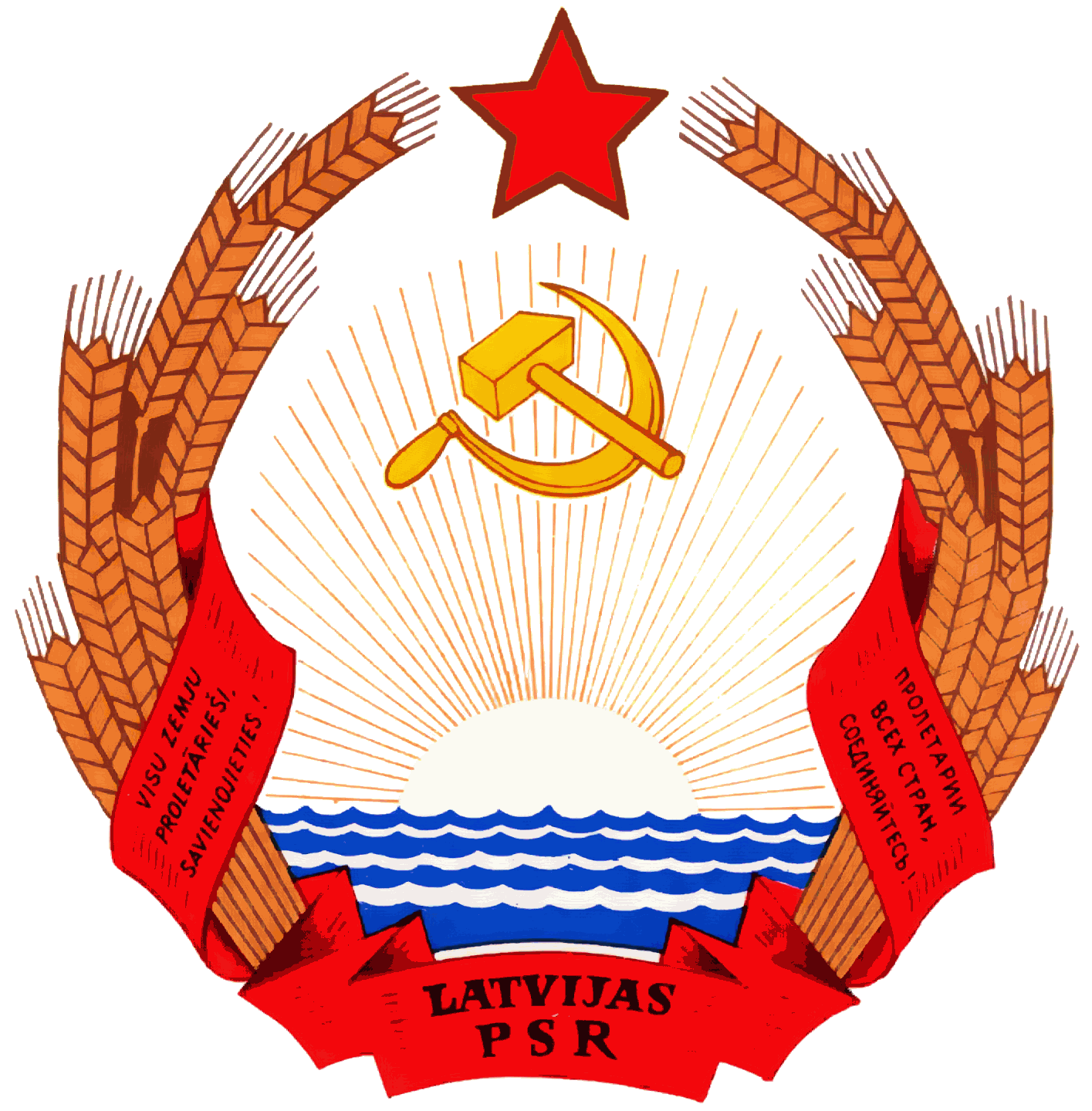 Coat_of_arms_of_Latvian_SSR.png